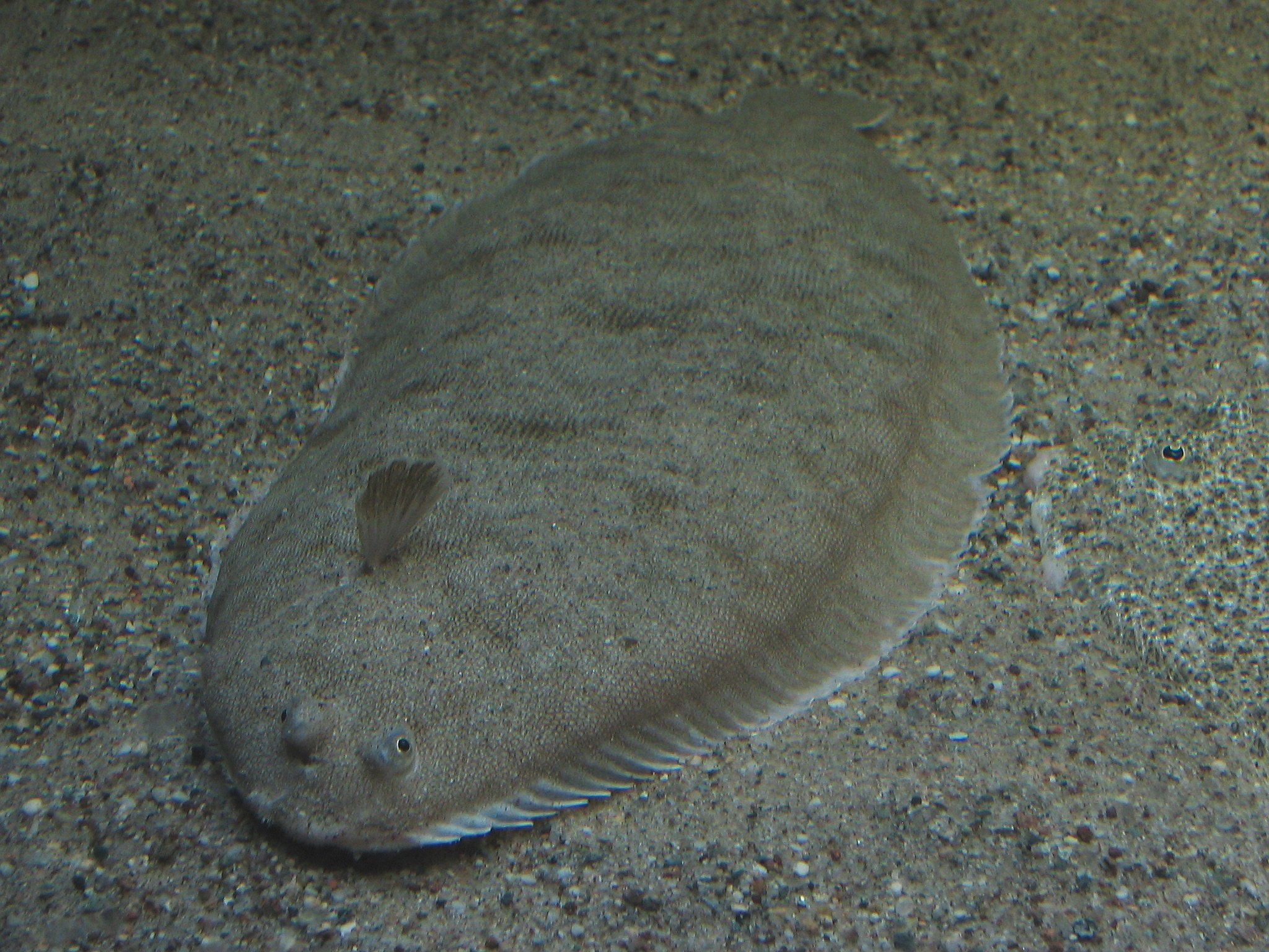 Sole